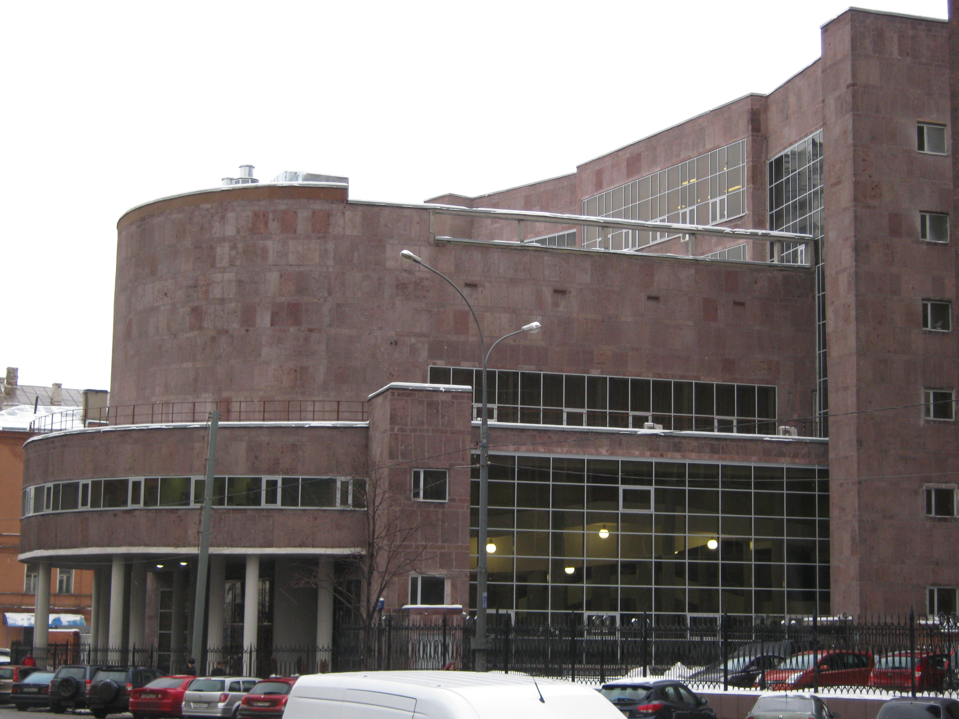 The Tsentrosoyuz building (Centrosoyuz Building) — in Moscow. Designed by French Modernist architect Le Corbusier and Russian Constructivist architect Nikolai Kolli between 1926 and 1933.